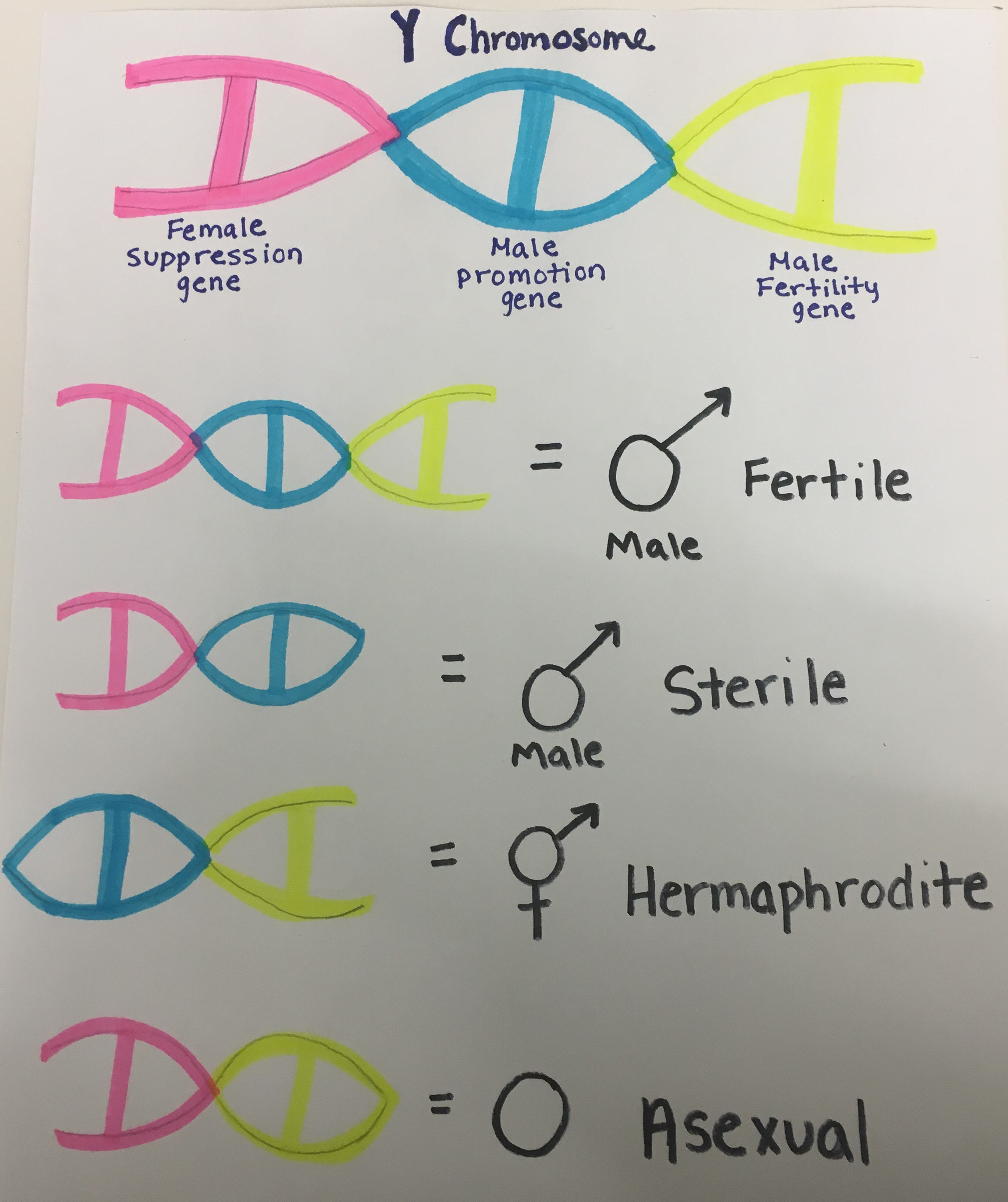 This diagram illustrates the distinct genetic combinations that can occur on the Y chromosome of Silene latifolia and the reproductive systems that each causes.